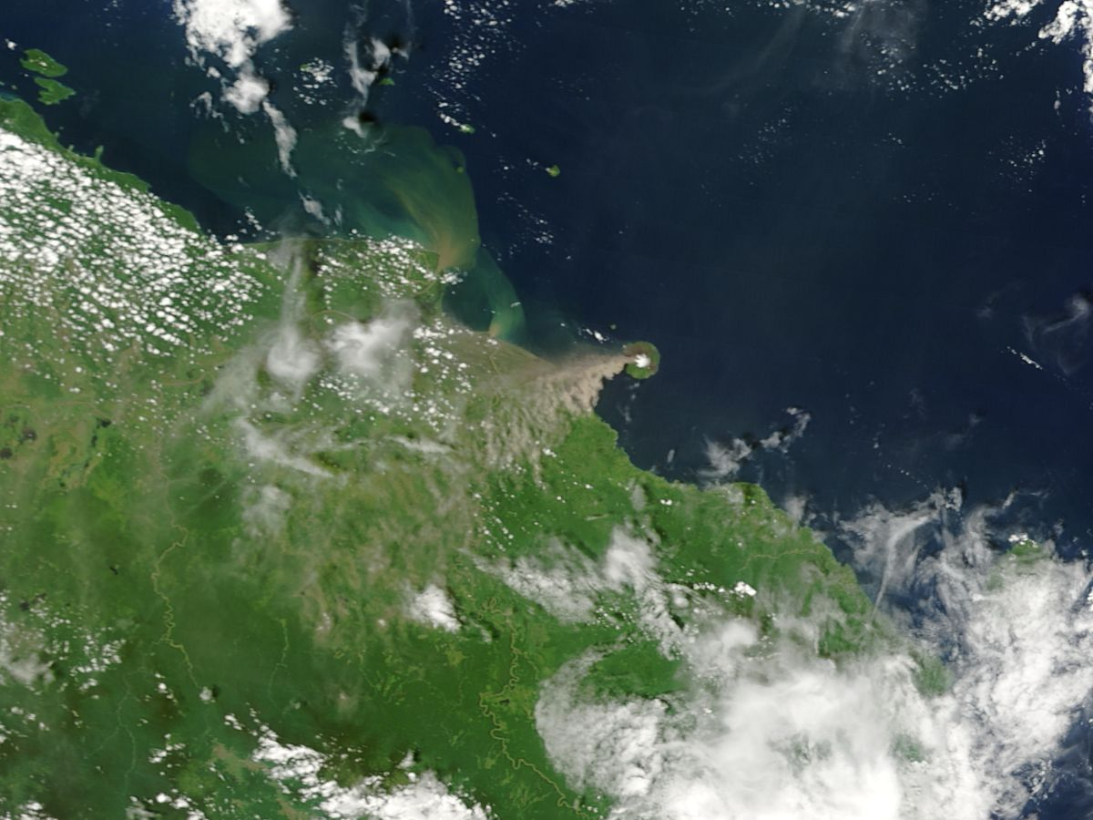 Large Ash Plume From Manam Volcano, Papua New Guinea. Taken by NASA's Terra satellite on November 15, 2004. The vast expanse of the Pacific Ocean floats over the Earth’s molten core on a section of the Earth’s crust called the Pacific Plate. Along its edges, the plate crashes against the plates holding the continents with often violent force. In most places, the cold Pacific plate is pulled under the continental plates, where it crumbles into hot magma, a process called subduction. Along the edges of the plates, the clashing and breaking crust generates powerful earthquakes, and the shallow molten rock fuels volcanoes. The result is the “Pacific Ring of Fire,” a circle of high volcanic and seismic activity along the rim of the Pacific Ocean. Papua New Guinea’s Manam Volcano sits in the southwest segment of the Pacific Ring of Fire where the Pacific Plate sinks beneath the Indo-Australian Plate. One of the region’s most active volcanoes, Manam forms a tiny 10-kilometer wide island that rises from the Bismarck Sea 13 kilometers off the shore of Papua New Guinea. The volcano has erupted frequently since its first recorded eruption in 1616, and was erupting on November 15, 2004, when the Moderate Resolution Imaging Spectroradiometer (MODIS) flew overhead on NASA’s Terra satellite. In this true-color image, dark ash rises from the volcano and is drifting southwest over Papua New Guinea. The current eruption began on October 24 with an explosive eruption that forced thousands of villages on Manam Island out of their homes. According to news reports, the ongoing eruption has not caused any injuries. NASA image courtesy Jacques Descloitres, MODIS Rapid Response Team at NASA GSFC